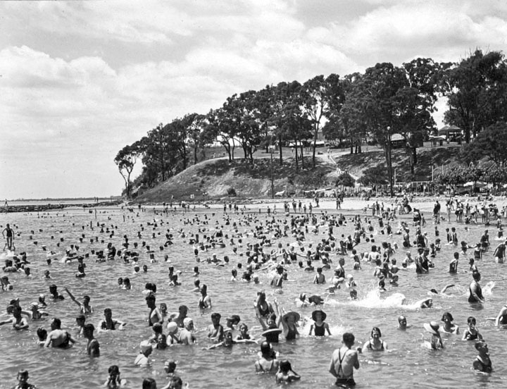 Bathers and Moora Park, Sandgate.